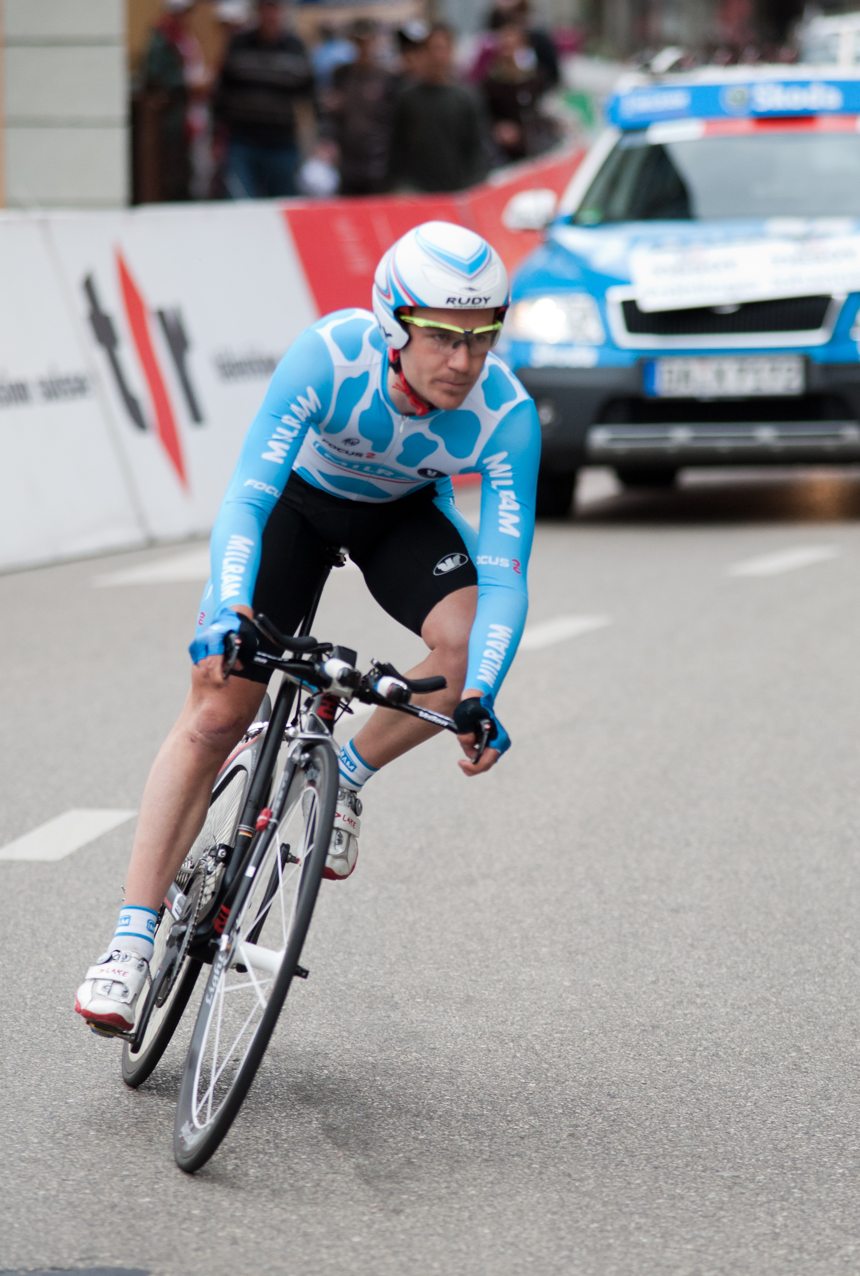 Johannes Fröhlinger during the 3rd stage of the Tour de Romandie 2010.